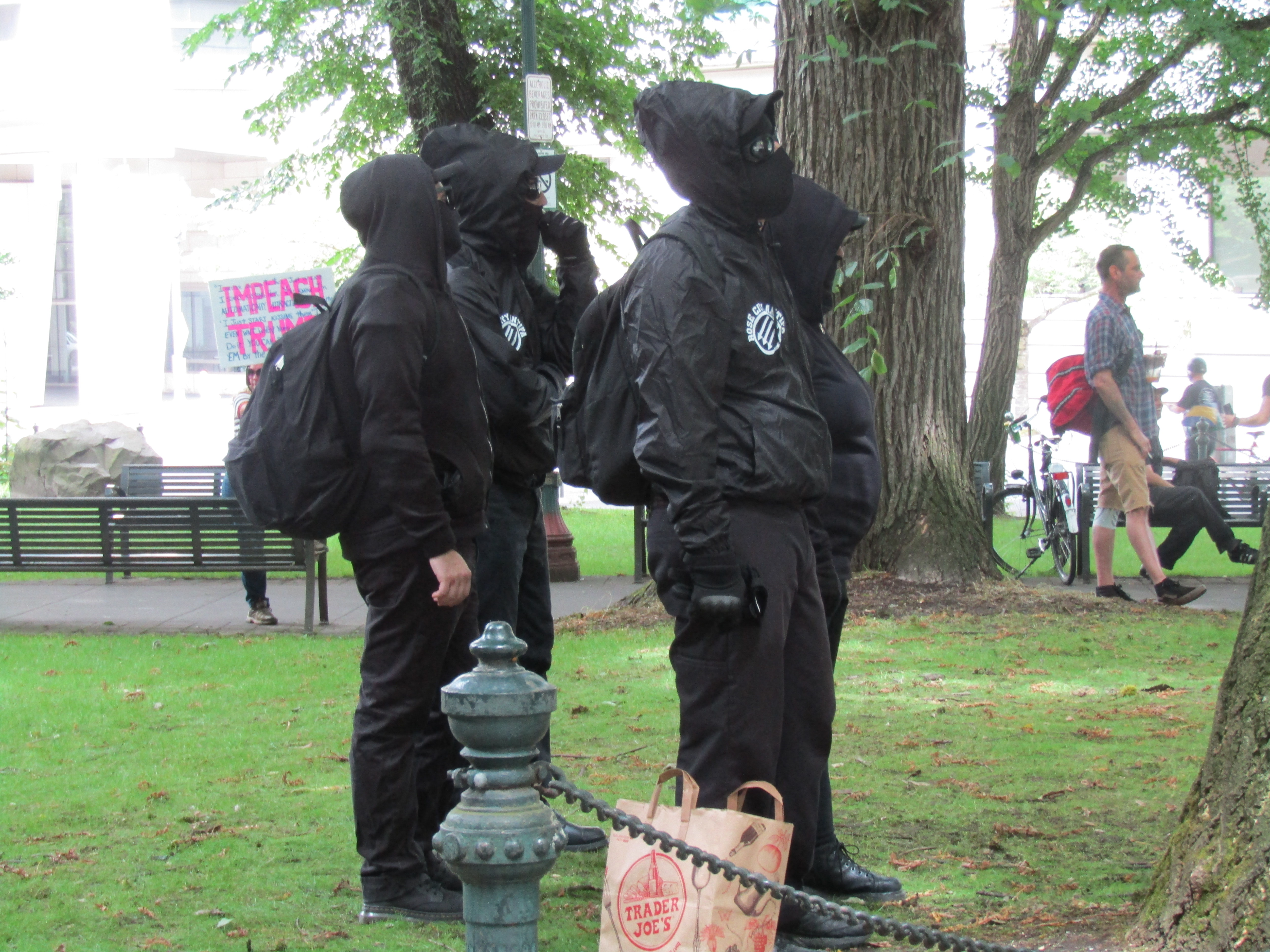 Patriot Prayer rally and counterprotest at Terry Schrunk Plaza in Portland, Oregon, June 30, 2018. Started out peaceful but later on turned violent.